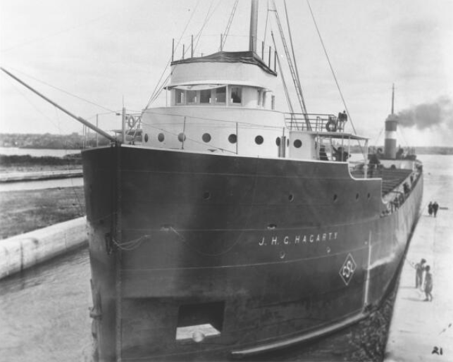 The J.H.G. Hagarty before being renamed in 1926